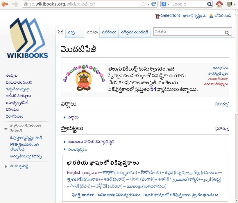 Telugu Wikibooks First page